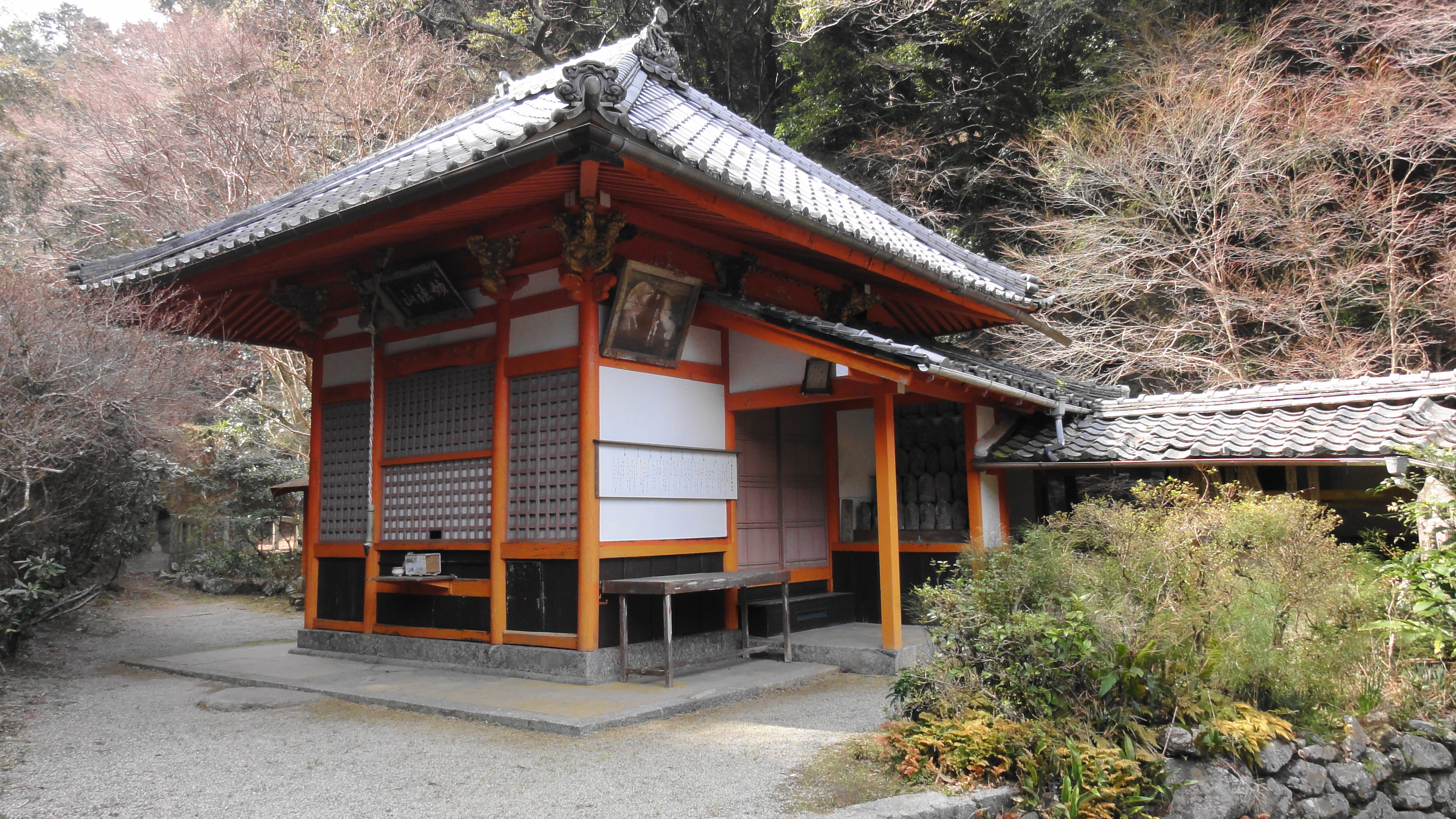 Zuiganji Mahavira hall,Mie prefecture,Japan